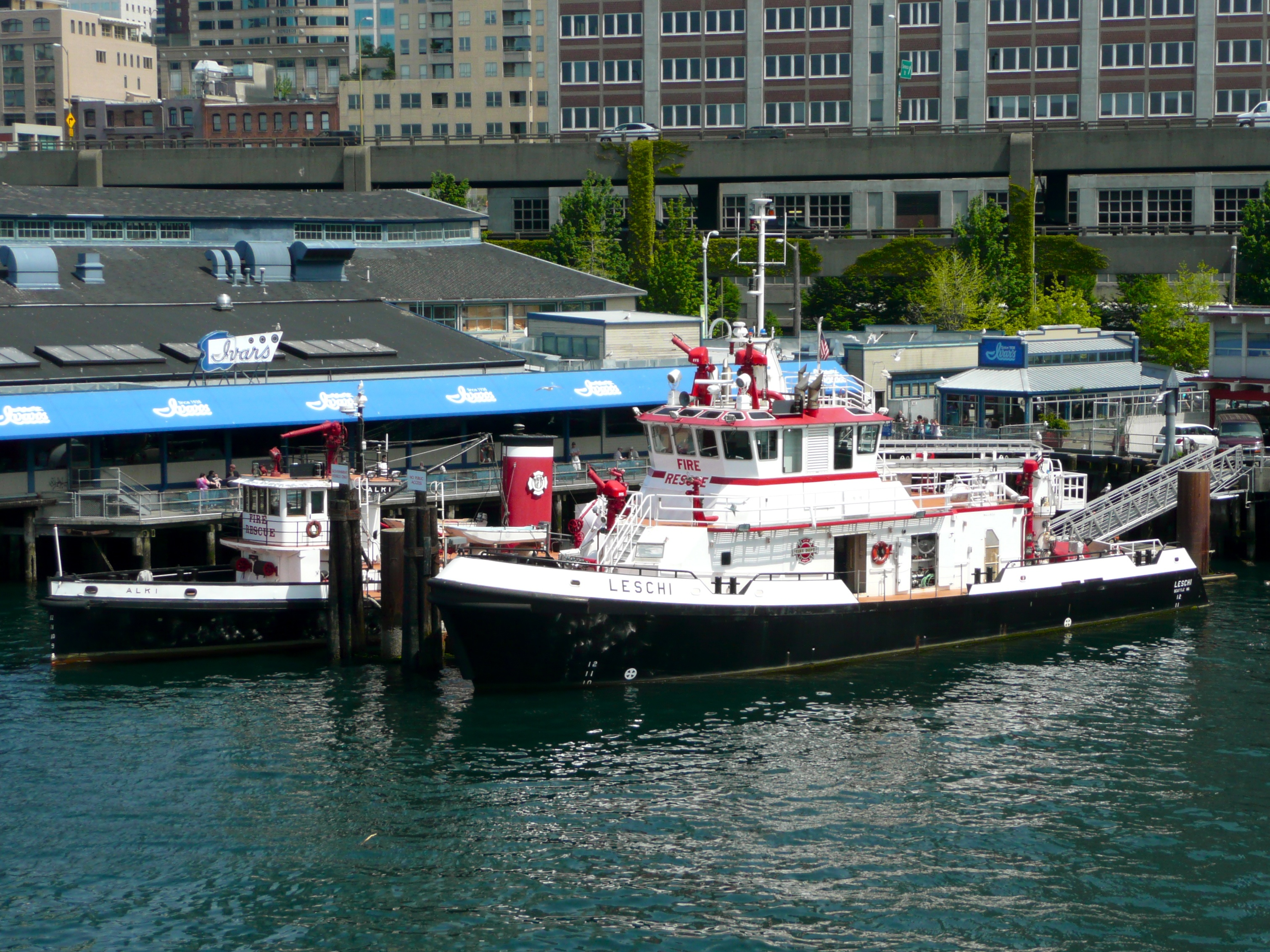 The following is the author's description of the photograph quoted directly from the photograph's Flickr page."On Puget Sound's Elliott Bay. "